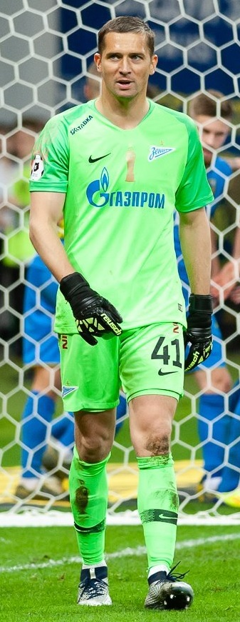 Mikhail Kerzhakov with FC Zenit Saint Petersburg in a game against FC Rostov.